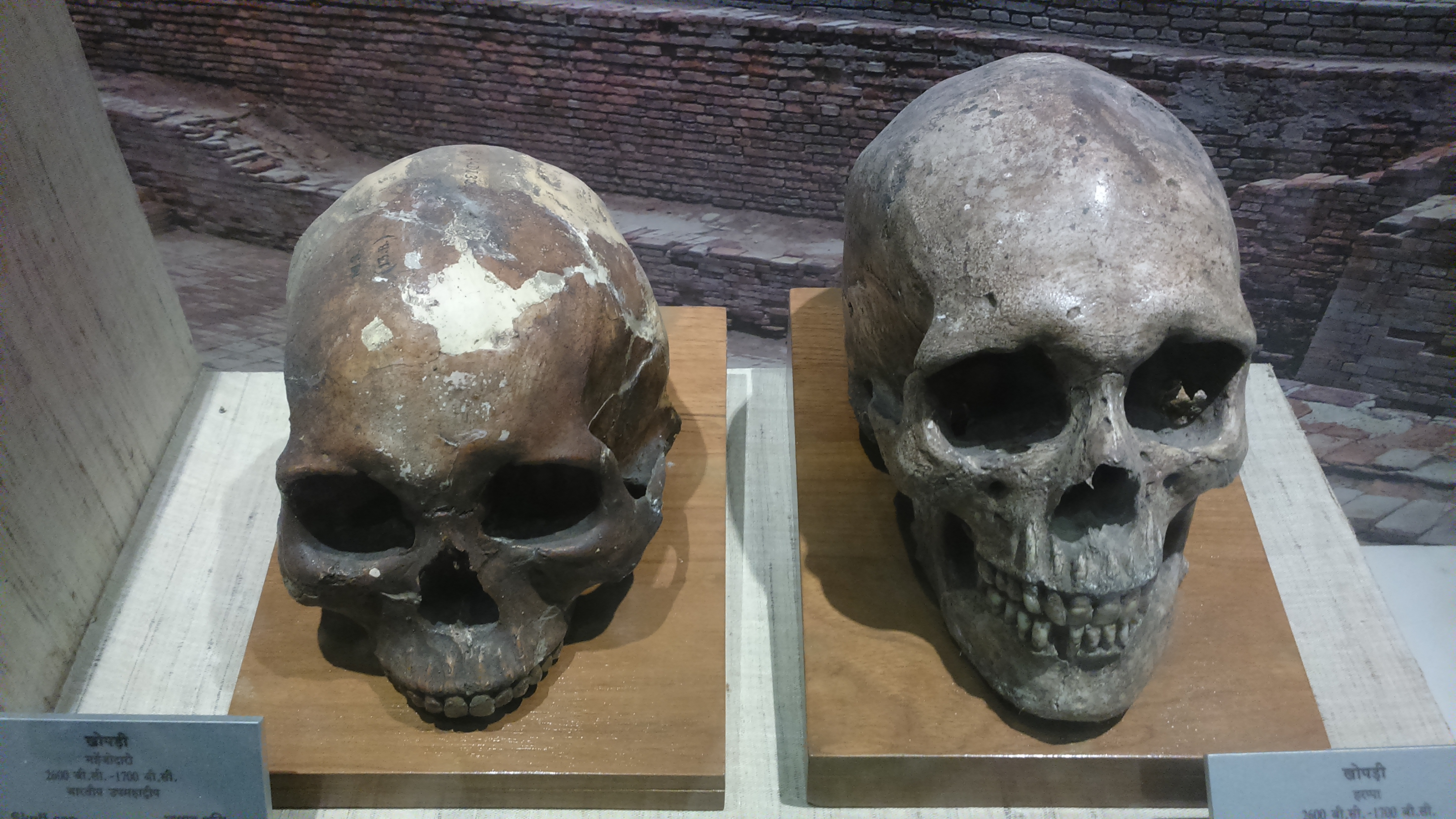 Skull of Indus Valley inhabitants, Indian Museum